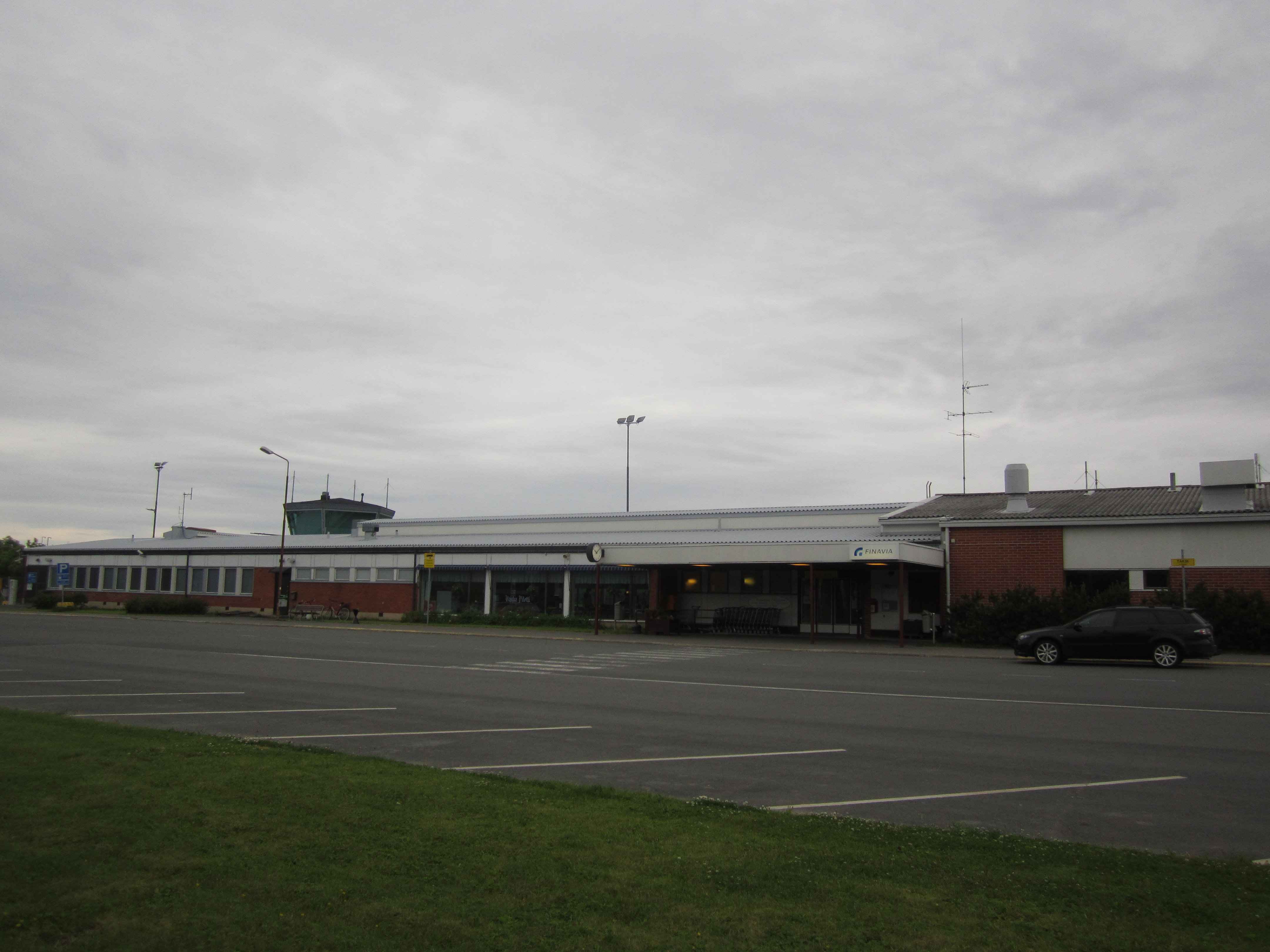 Lappeenranta Airport Terminal